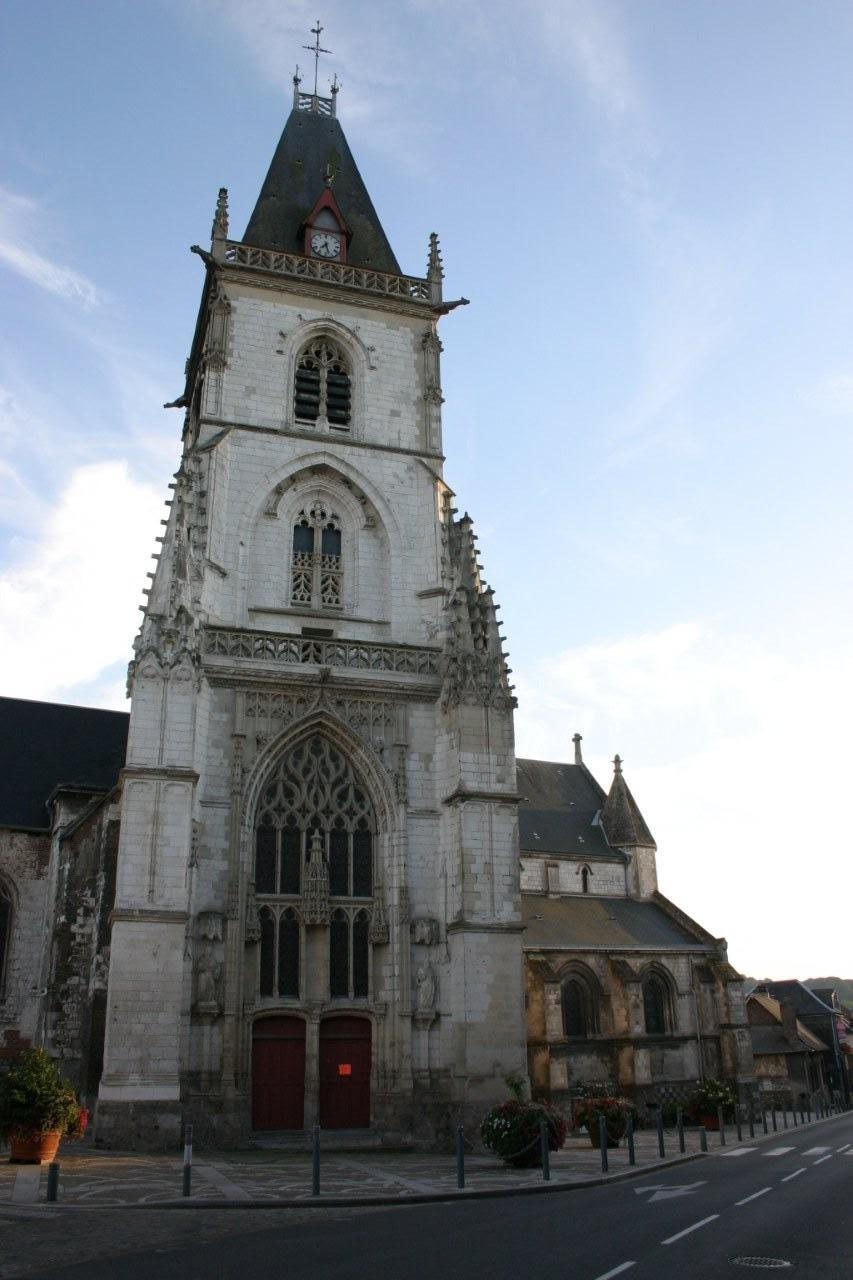 Church in Gamaches, Somme, France